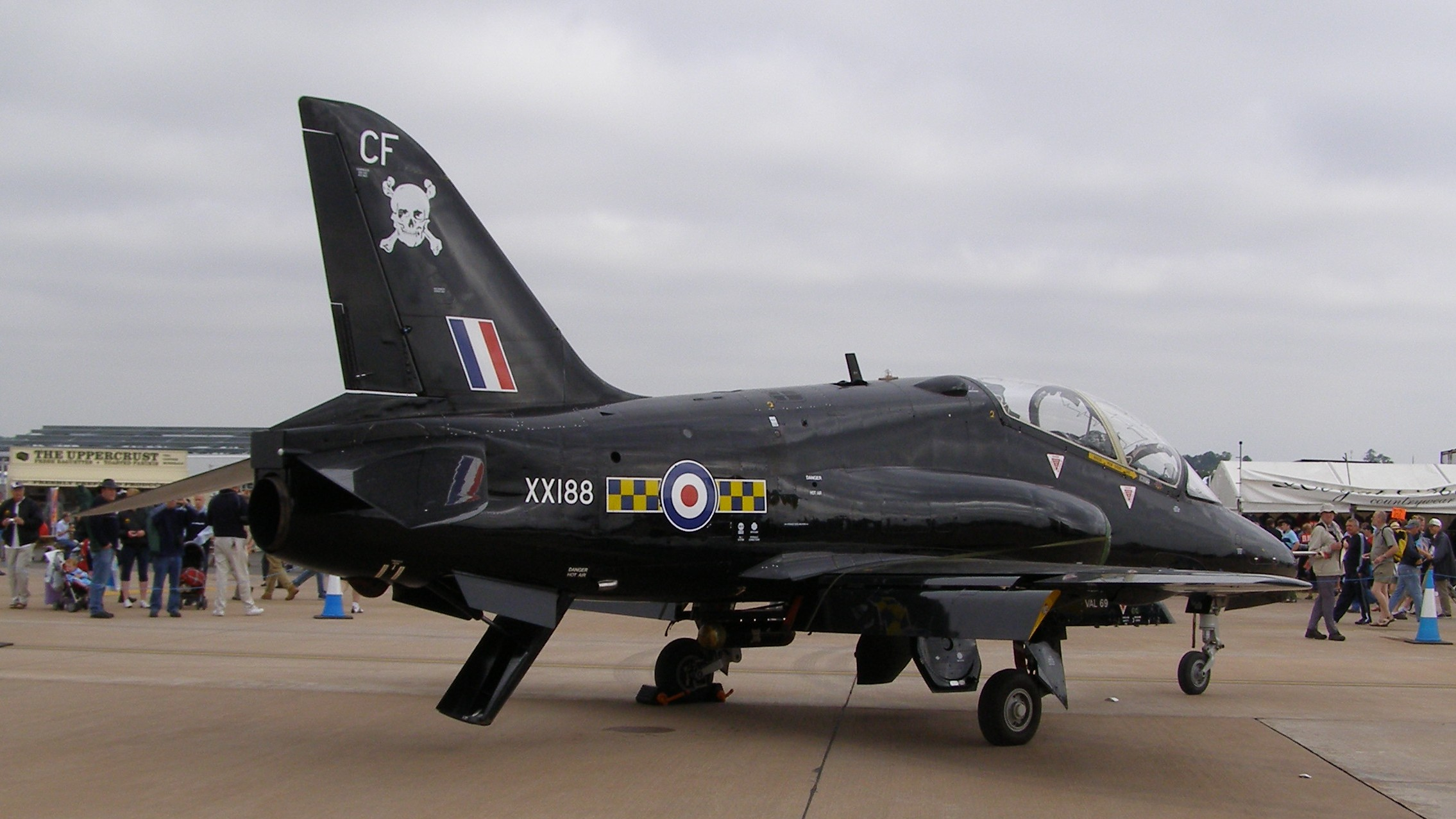 A Royal Air Force Hawk T1 "XX188" of 100 Squadron on display at the Royal International Air Tattoo, RAF Fairford